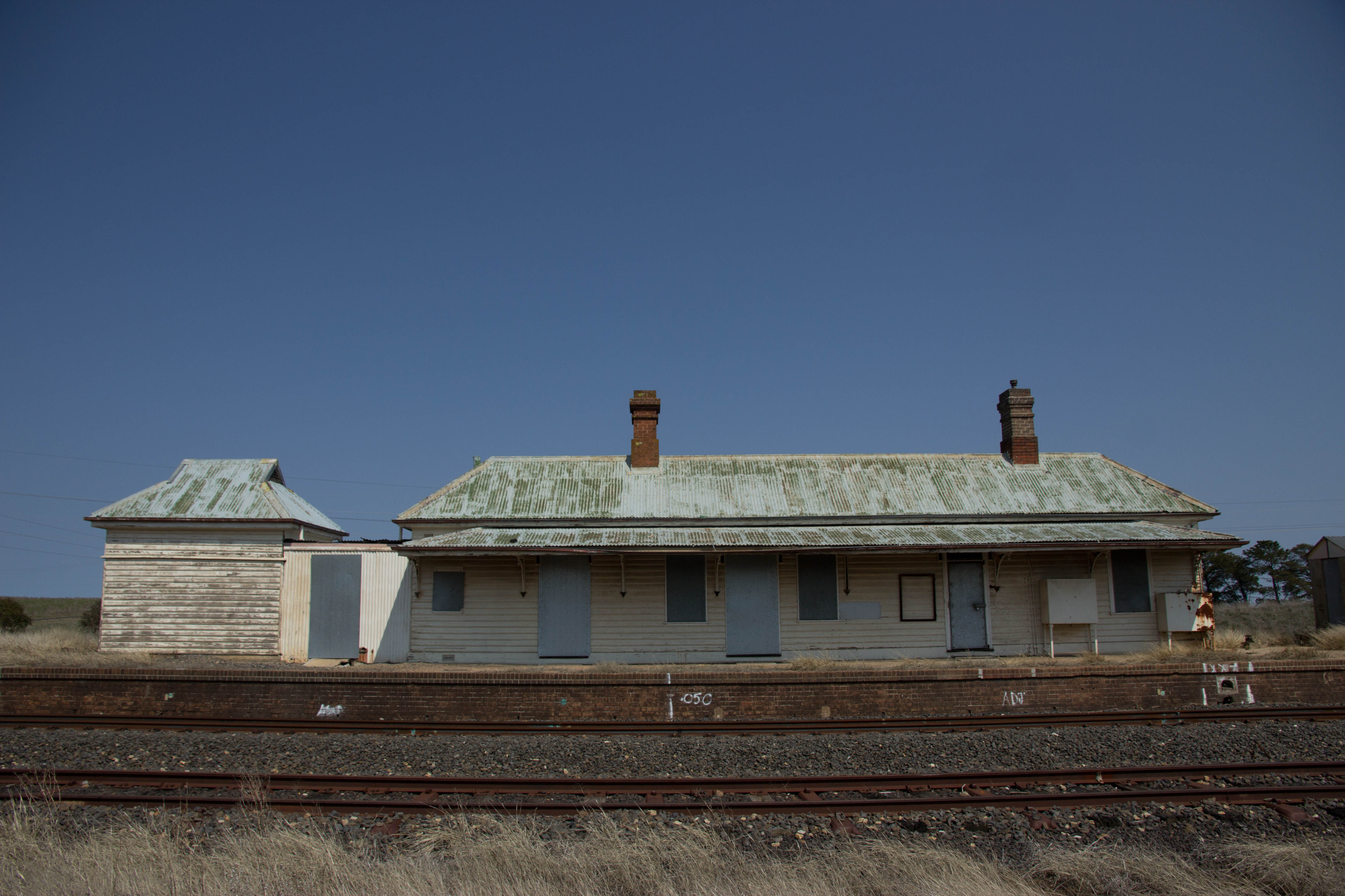 Disused Raglan railway station, New South Wales, east of Bathurst, NSW.